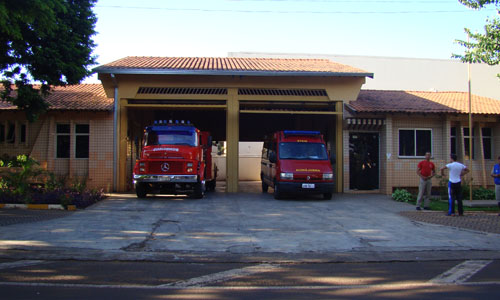 Posto Vila Operária (Fire station) of the 5th GB (Fire Department of Maringá City) of Military Police of Parana State - Brazil.